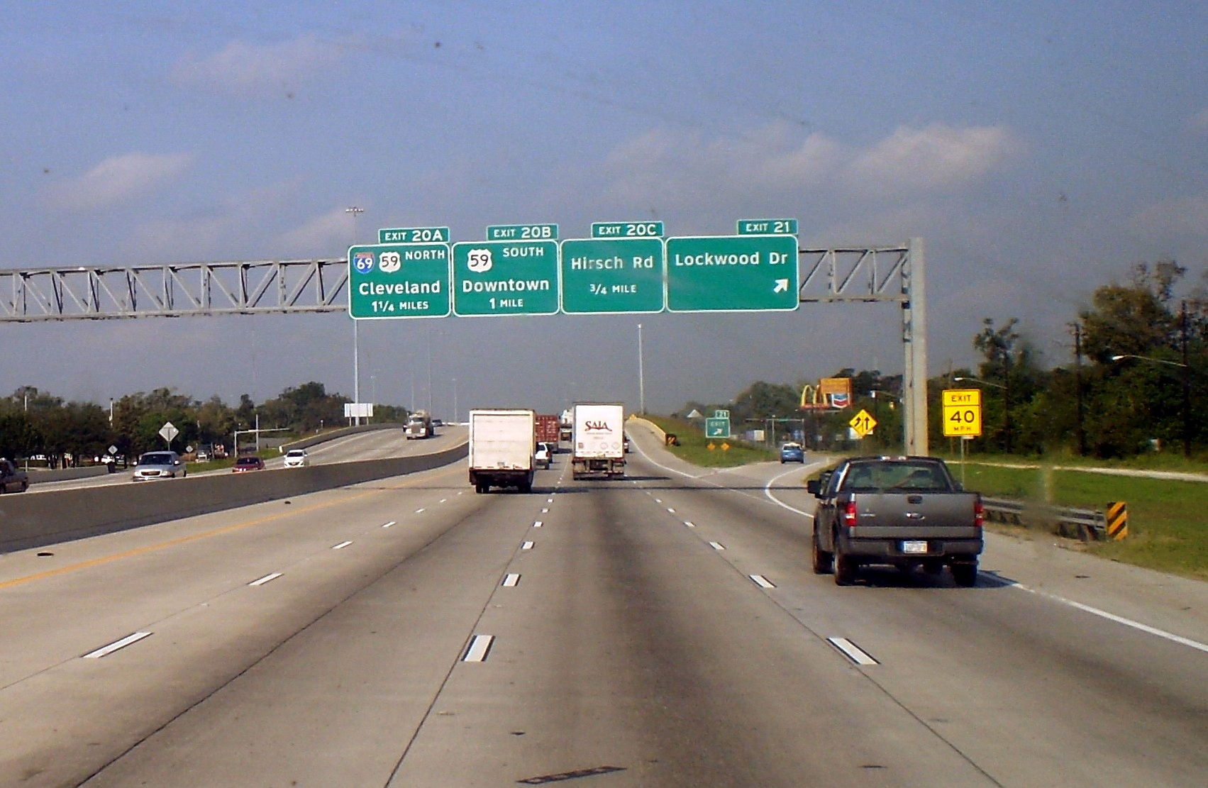 Perspective of I-69/US-59 North From westbound i-610 North Loop East